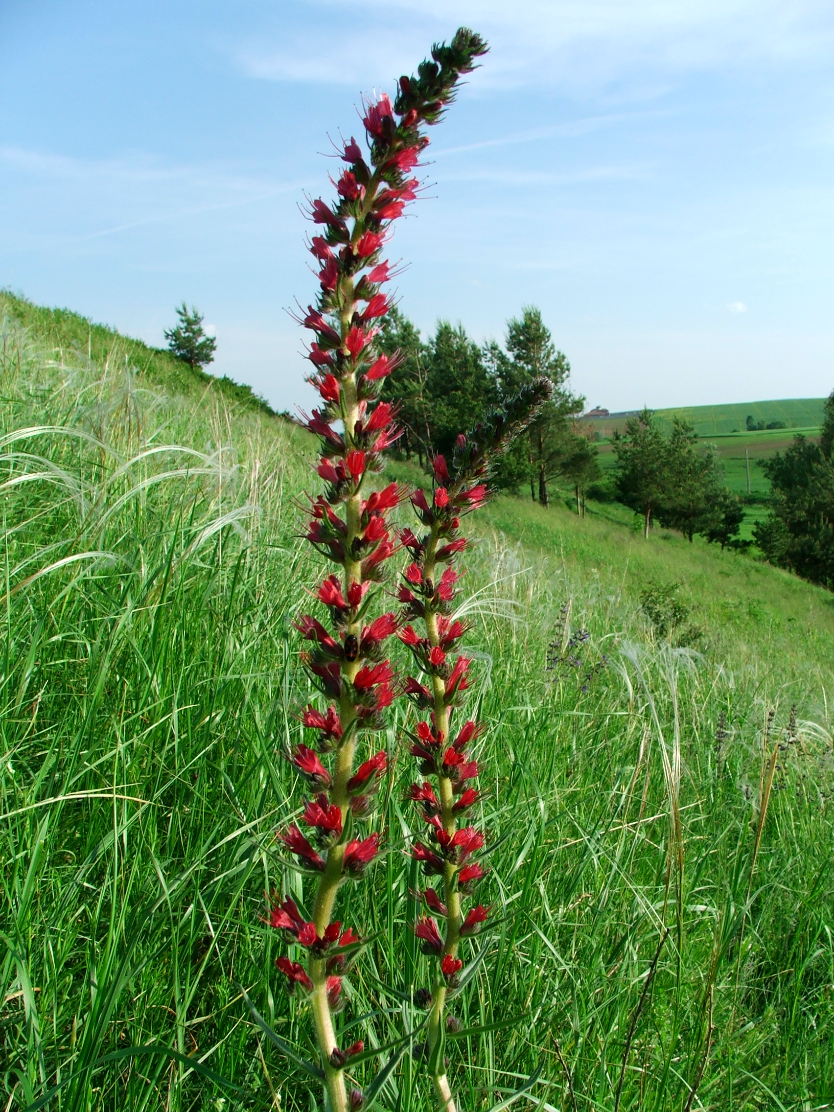 Pontechium maculatum